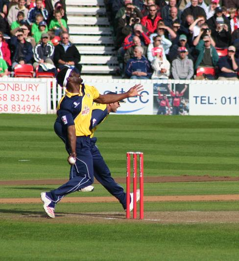 Carl Greenidge bowling at Somerset CCC at Taunton, June 27 2007